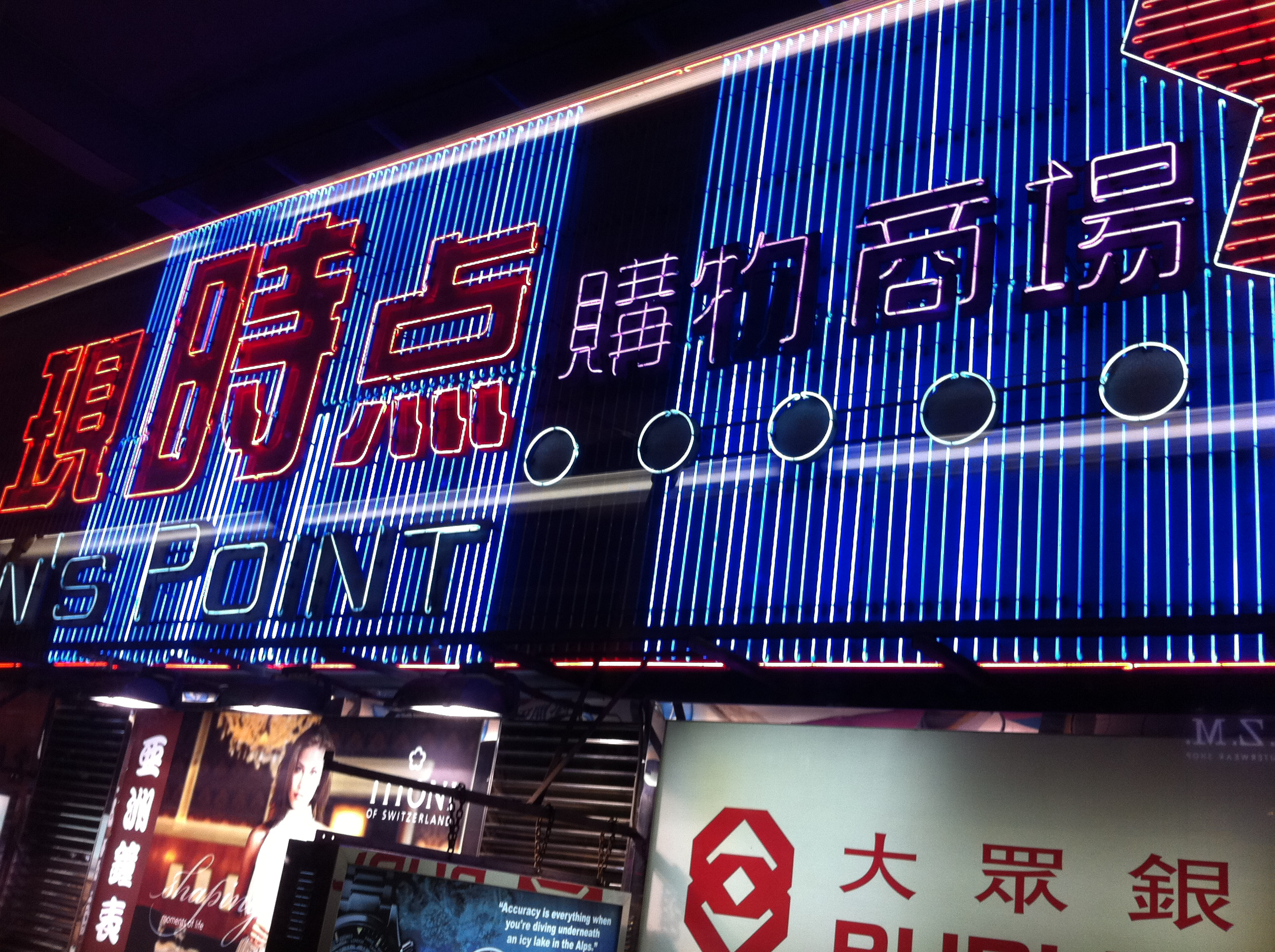 現時點 In's Point, 彌敦道 530-538號, Nathan Road, Yau Ma Tei, Hong Kong